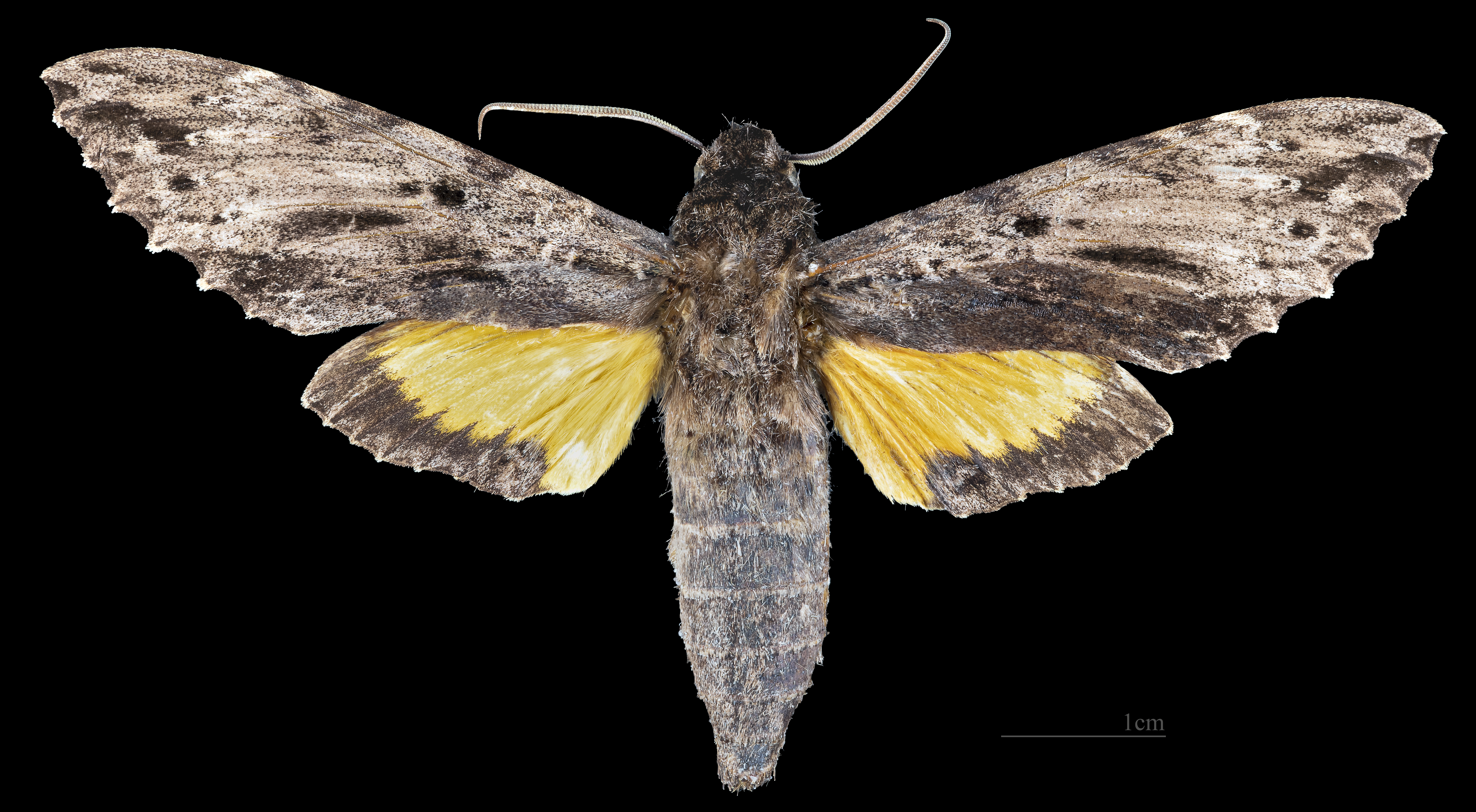 Isognathus leachii - Dorsal side Collection of the Mathematician Laurent Schwartz